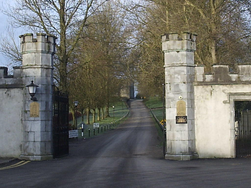 The alle to Durrow castle